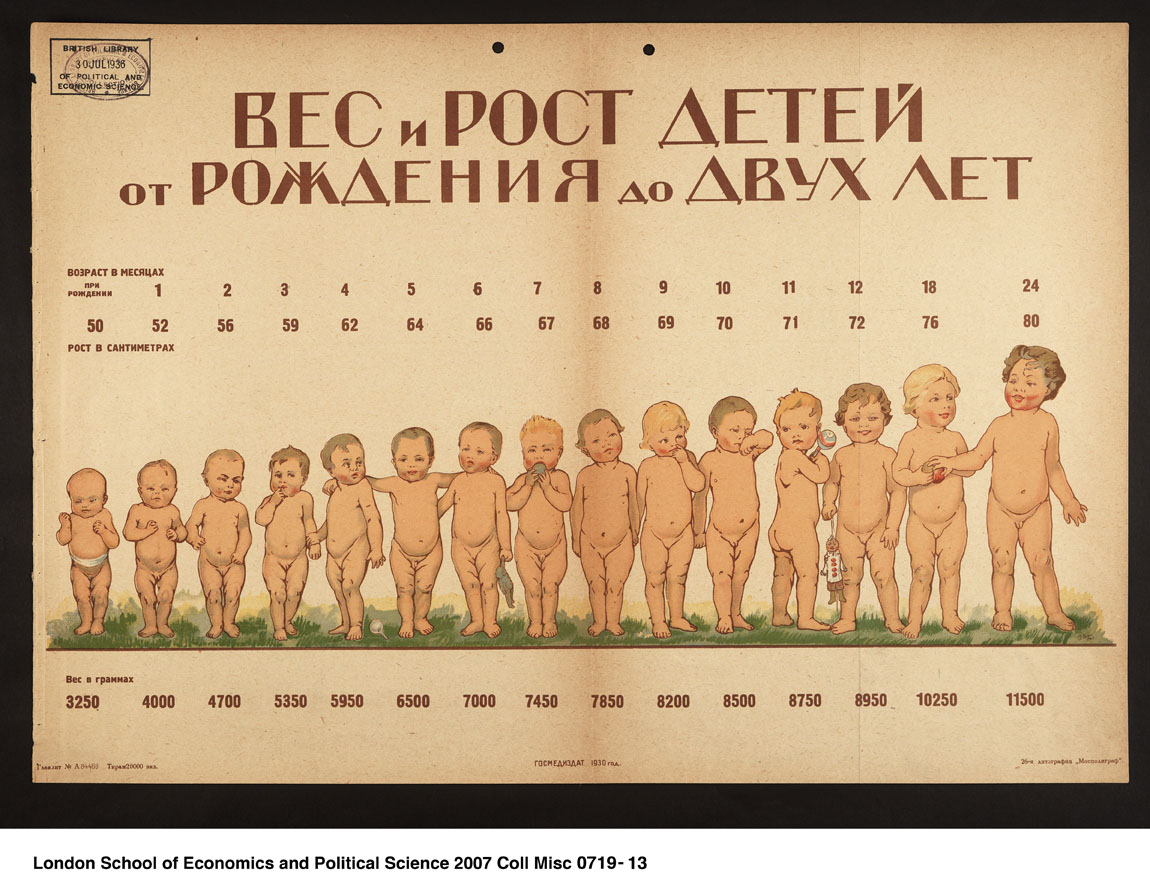 Chart giving average heights and weights for infants, with illustrations of babies and toddlers ranging in age from 1 - 24 months. Printer:Mospoligraf Publisher: Gosmedizdat Place of Production: Moscow Date: 1930 Persistent URL: misc 0719/13')